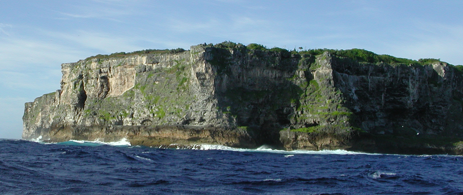 Walpole Island from the sea (windward side)